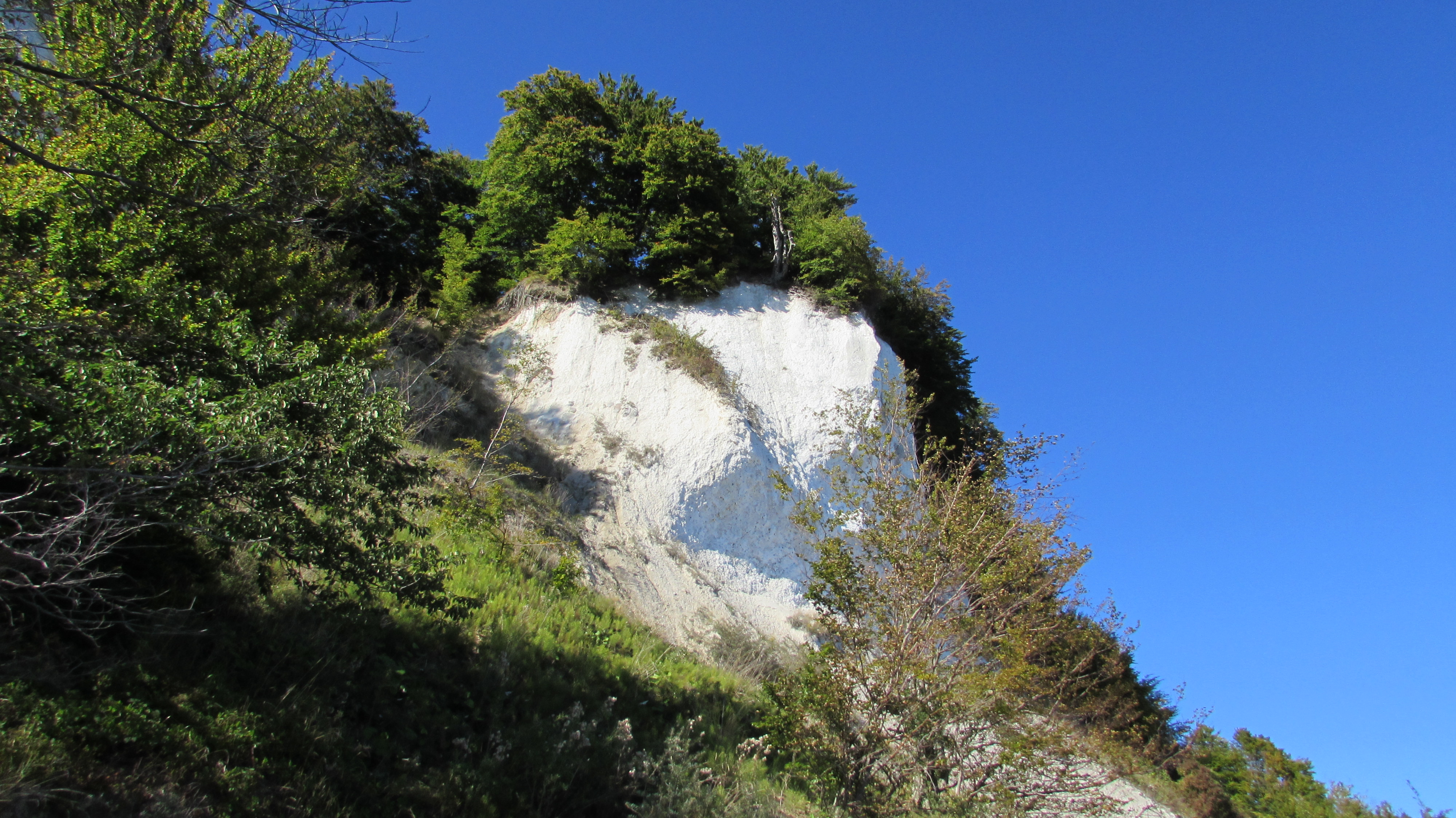 Photography of the chalk cliff at the national park Jasmund on the island of Rügen (Rugia)